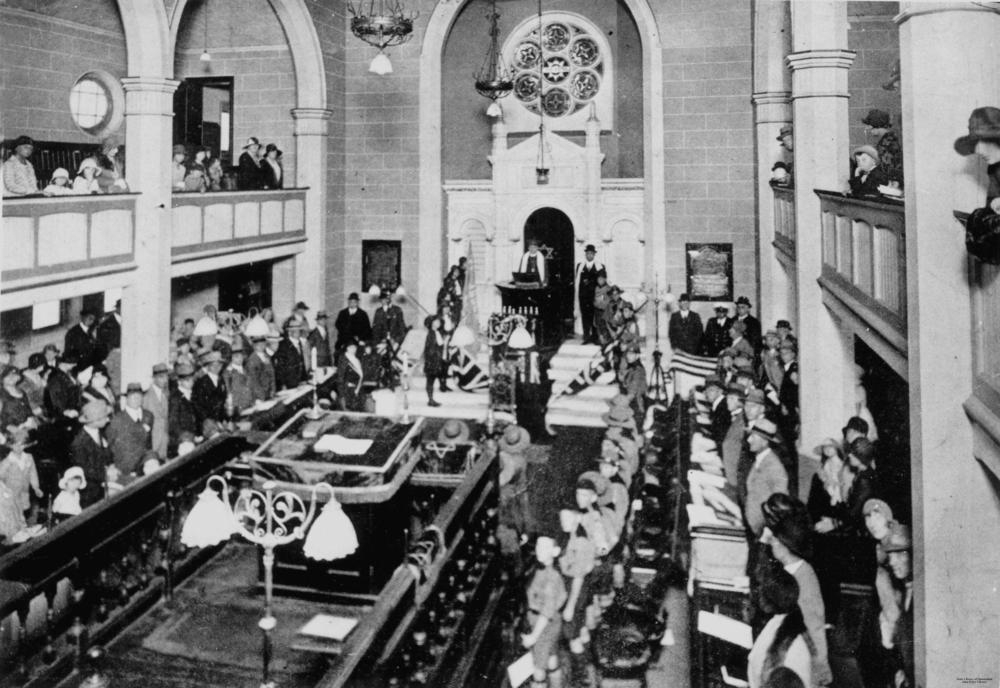 Description: The congregation fills the stalls and a large number of Girl Guides and Boy Scouts are present for the service. Some of the children bear flags as they flank the presider. The structural design and layout of the synagogue is featured. Creator: Unidentified. Queenslander (1866 - 1939) Location: Brisbane, Queensland View contemporary images of Anzac Day on our Anzac Day Today Historypin project: Learn more about this image at the State Library of Queensland: Information about State Library of Queensland’s collection: You are free to use this image without permission. Please attribute State Library of Queensland.